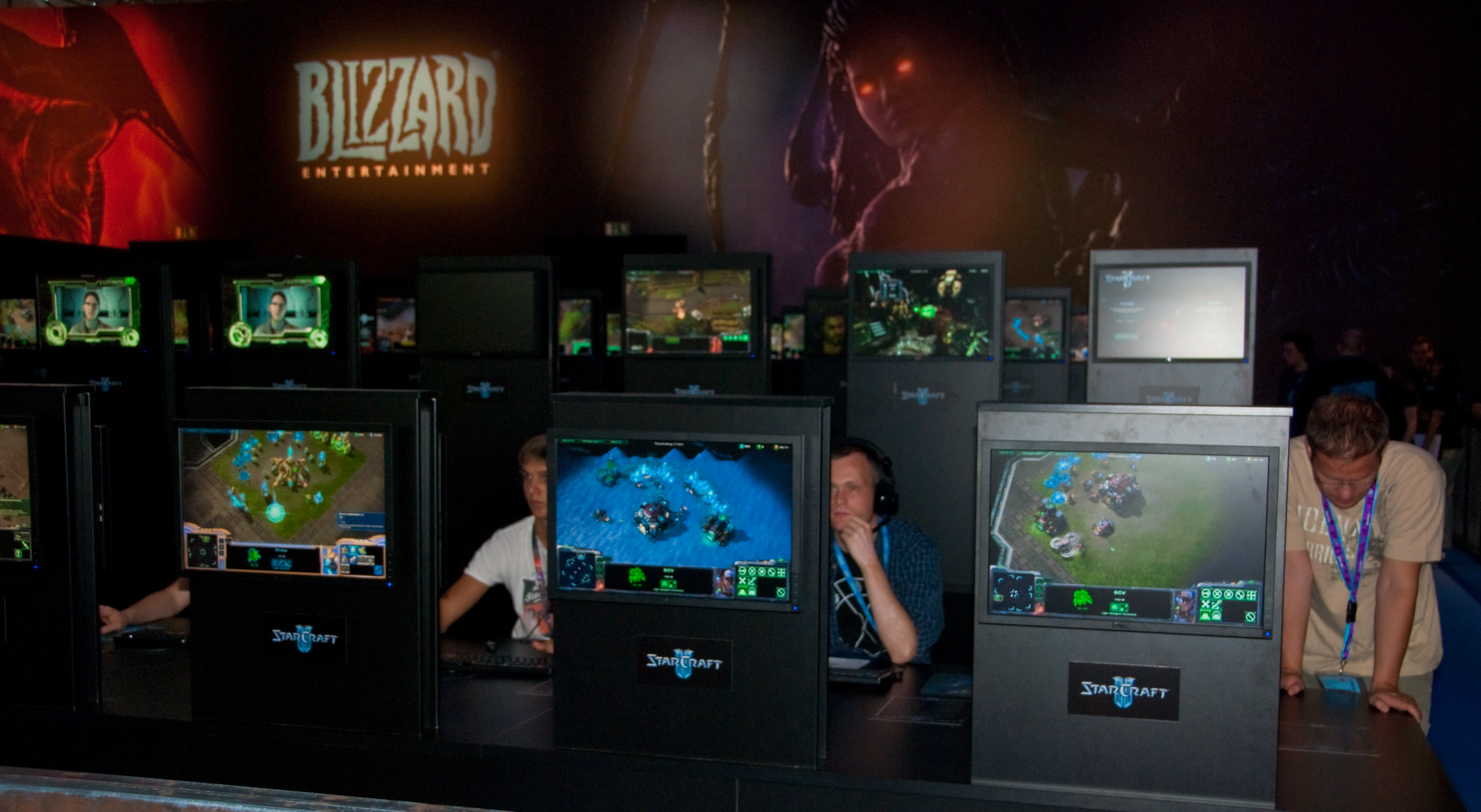 Starcraft II at GamesCom